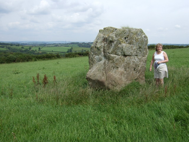 Maen Llwyd standing stone This is one of many ancient standing stones throughout Wales called Maen Llwyd (Grey Stone). This one is on a hilltop overlooking the Tywi valley near Llansteffan.